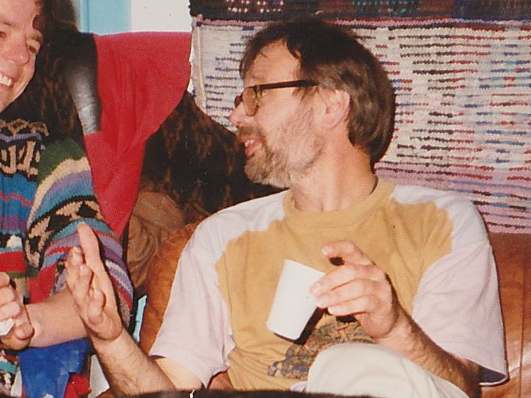 Theo Lalleman, Rotterdam 1993